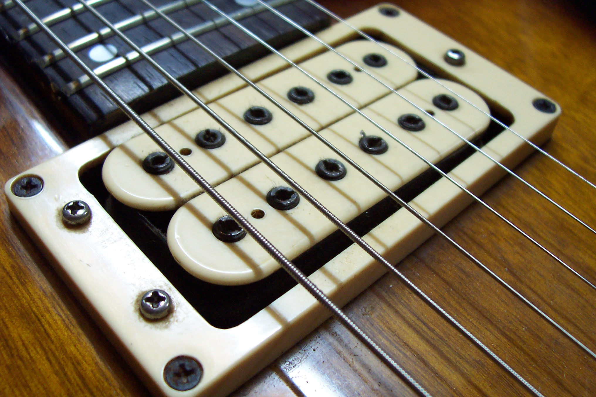 Super Humbucker V-2 pickup on an Ibanez Studio electric guitar.